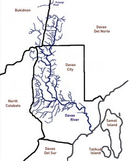 drainage basin of the Davao River